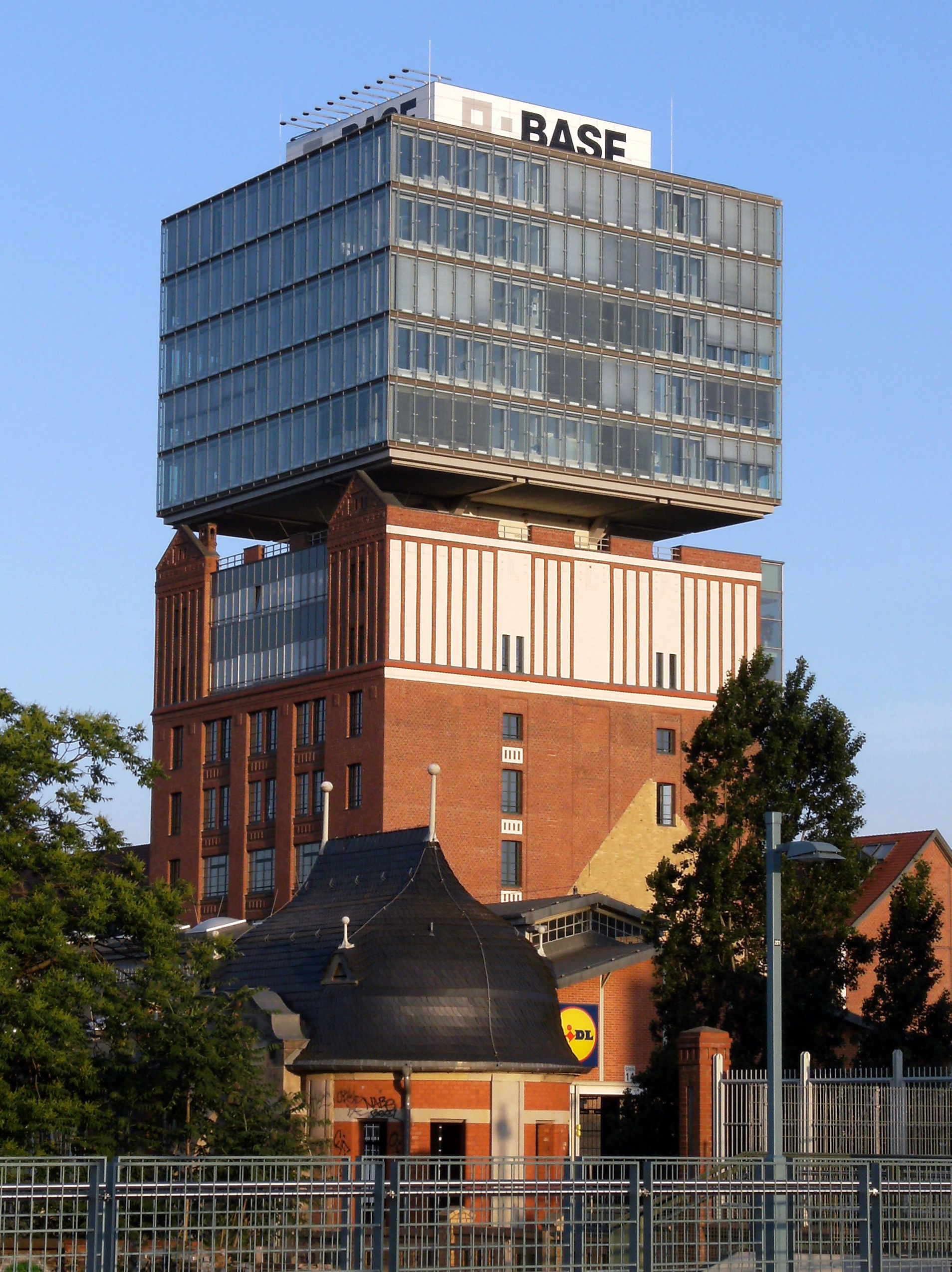 Berlin in june 2008.